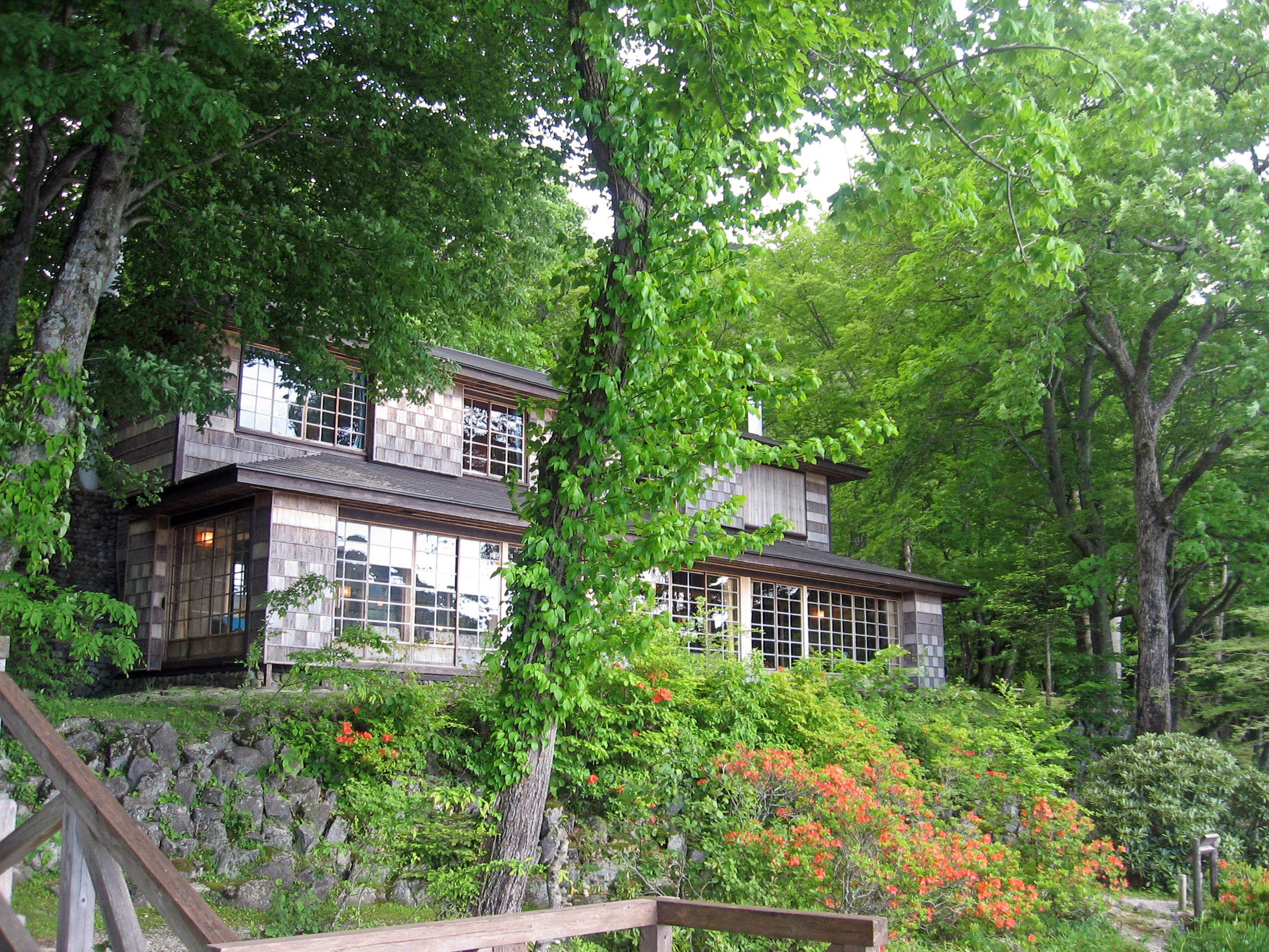 former Italian embassy villa,Nikko,Tochigi,Japan